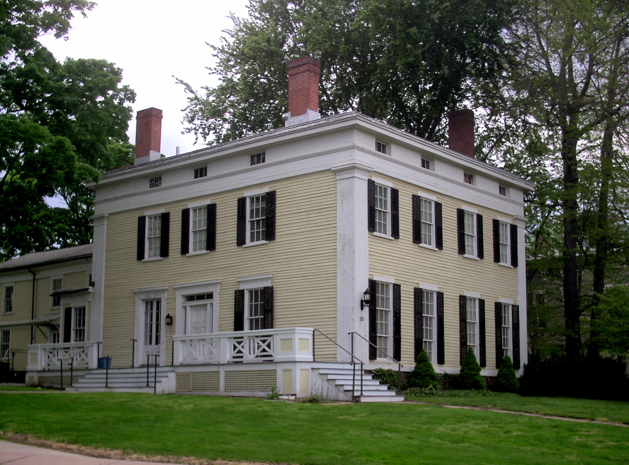 A house on High Street in Middletown was constructed in 1837-8 in the Greek Revival style to serve as home for Wilbur Fisk, the first president of Wesleyan University. It served as a house for Wesleyan’s presidents until 1904 and then as the Dean’s House until 1967. It is currently the Center for the Americas, housing the departments of American Studies and Latin American Studies. Description Credit: Historic Buildings of Connecticut